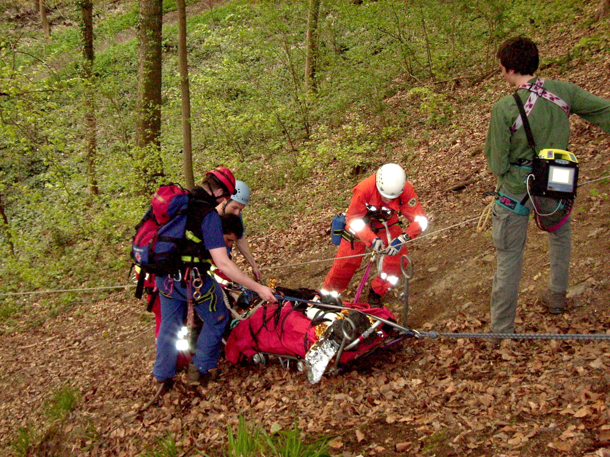 Patient in mountain rescue stretcher, secured with ropes, training event of German Black Forest Mountain Rescue Freiburg.